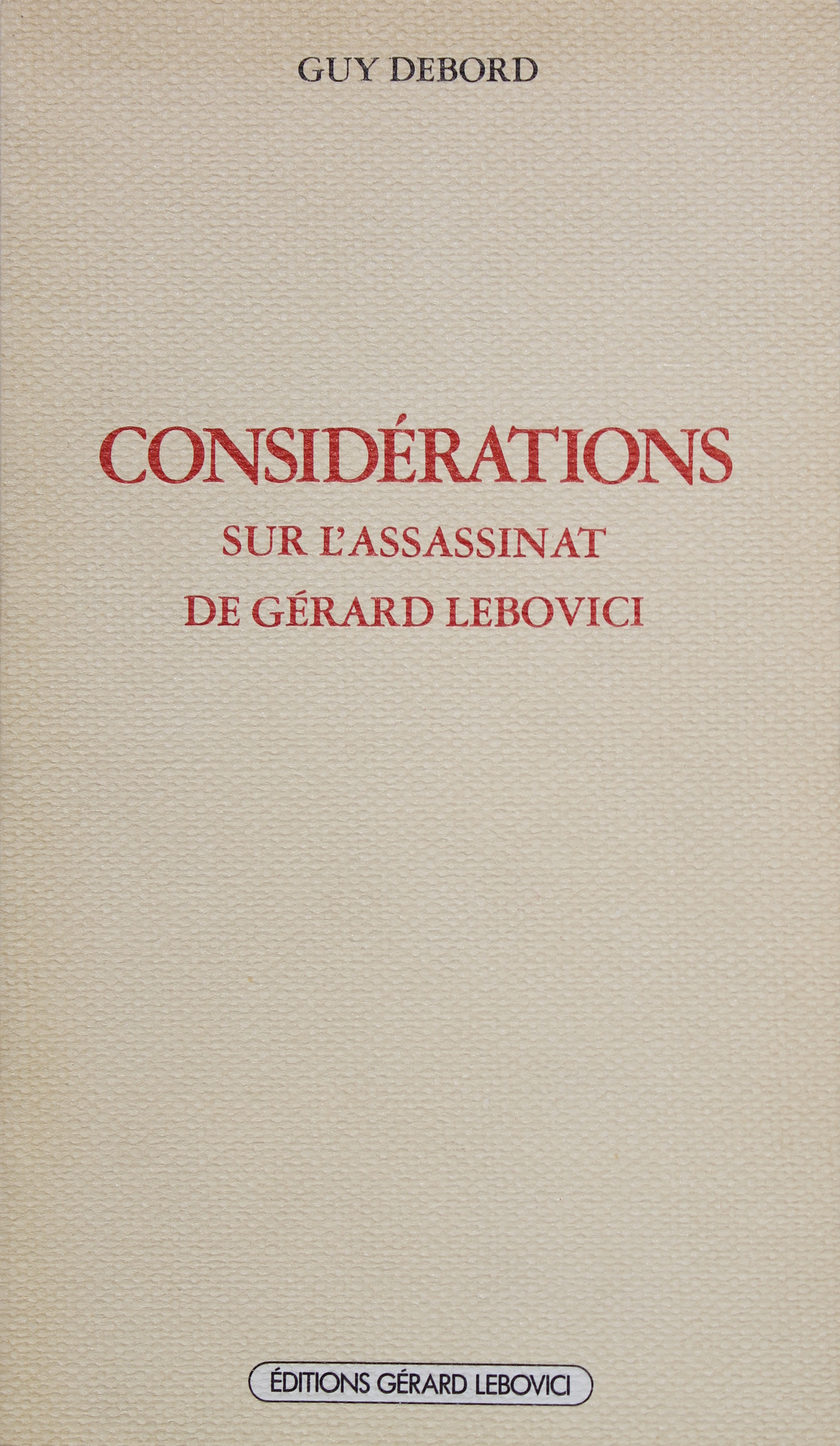 Considérations sur l'assassinat de Gérard Lebovici cover